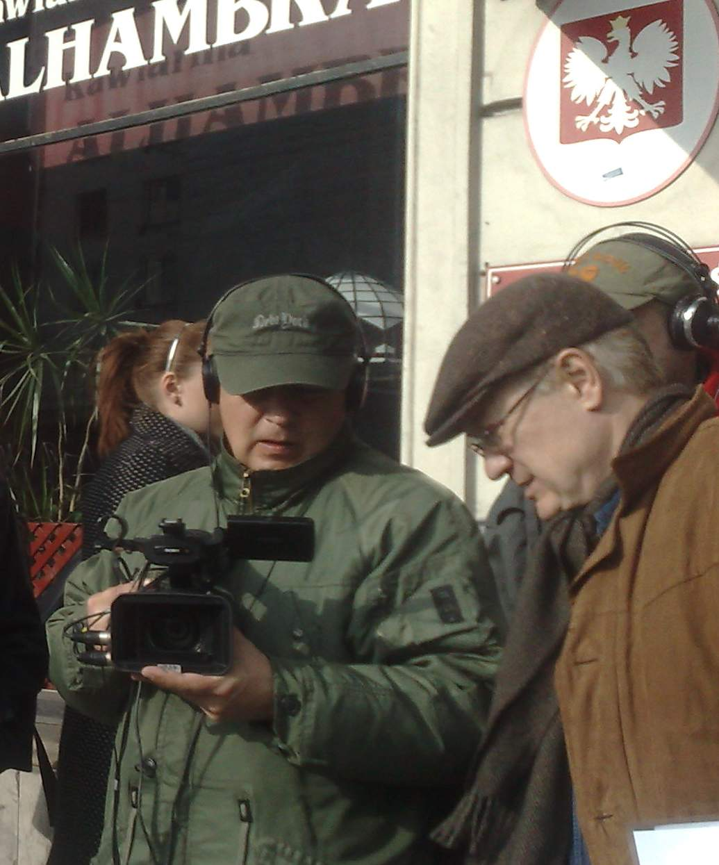 Polish Movie-Director Robert Glinski working on documentary Homo.pl